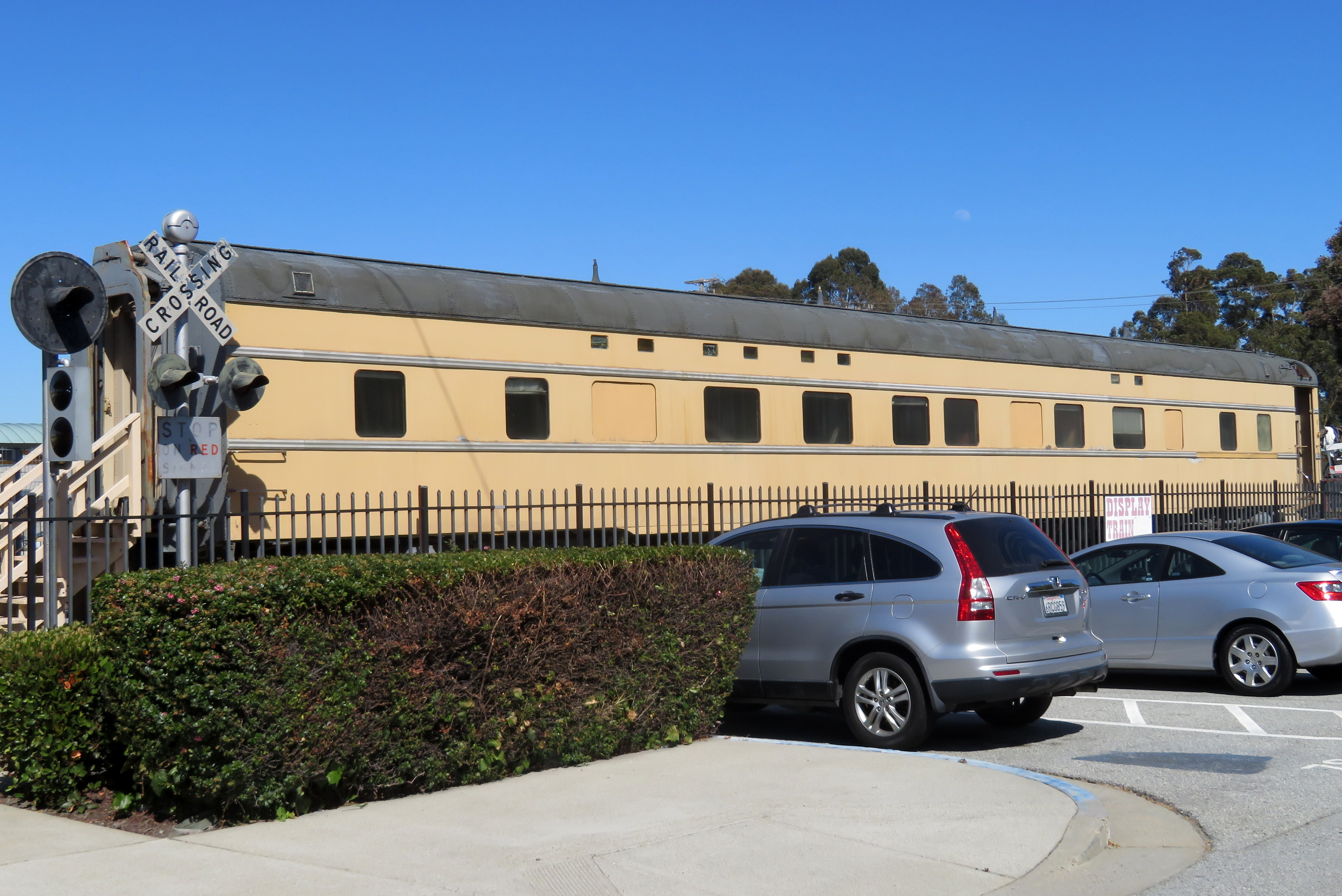 The Civic Center at the former Millbrae station in June 2018